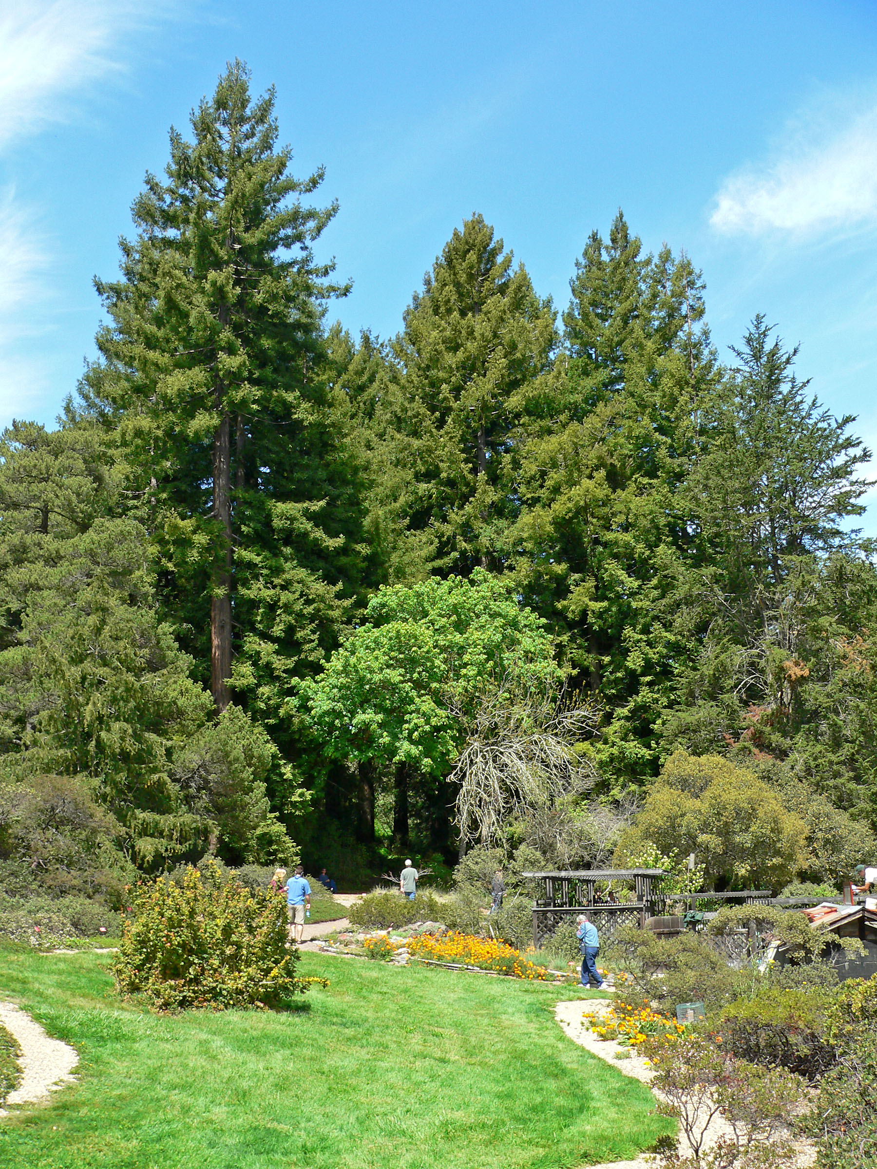 View of the Regional Parks Botanic Garden, Berkeley Hills.